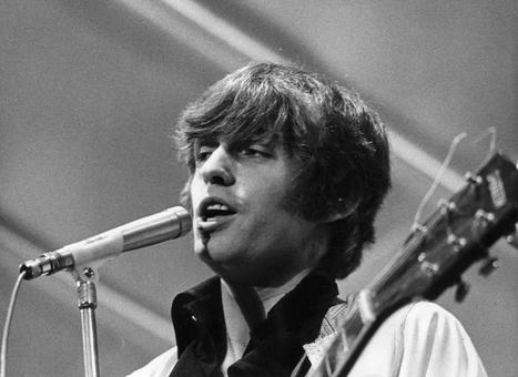 Georgie Fame at Gröna Lund, Stockholm, Sweden in 1968.